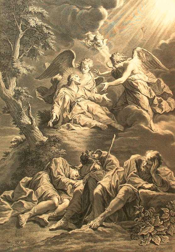 "Le Christ au Jardin des oliviers" ("Christ on the Mount of Olives") by Pierre Imbert Drevet after Jean II Restout (1692-1768).